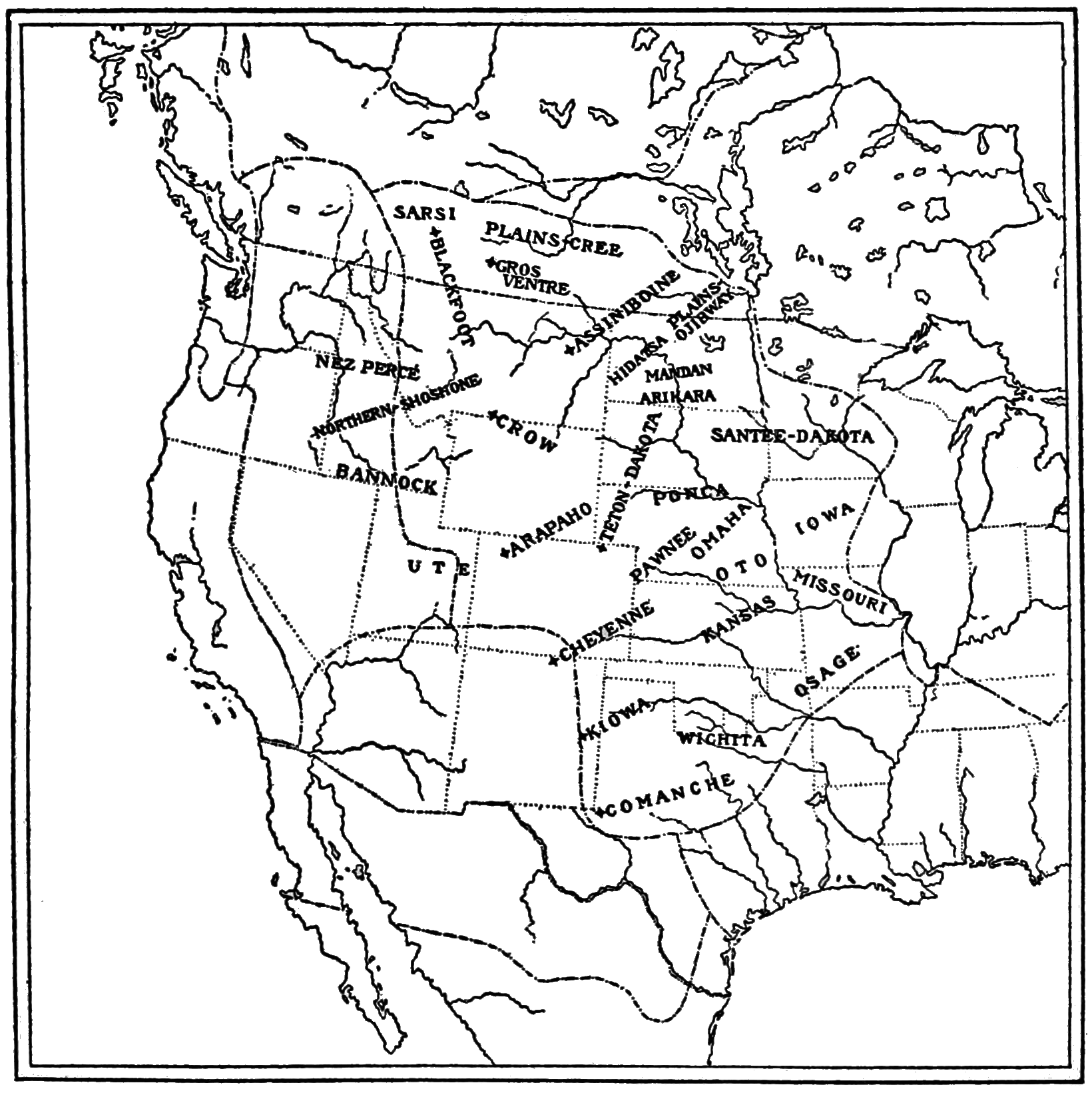 Map of the area of the plains indians